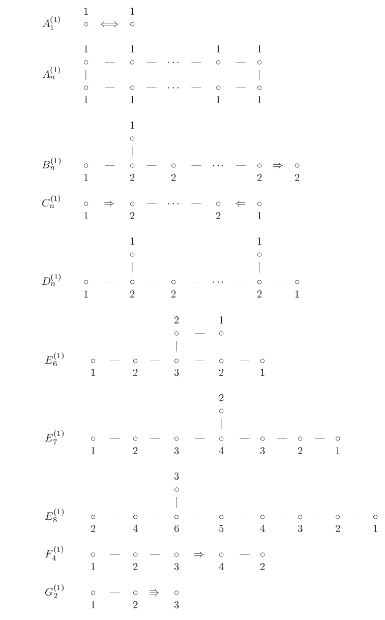 Affine Dynkin diagrams with standard labelling, produced in TeX